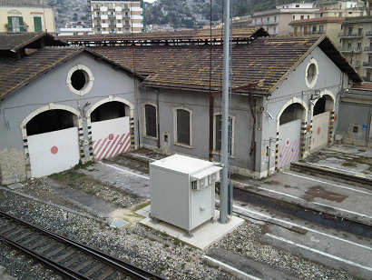 Railway depo in Modica, Sicily.